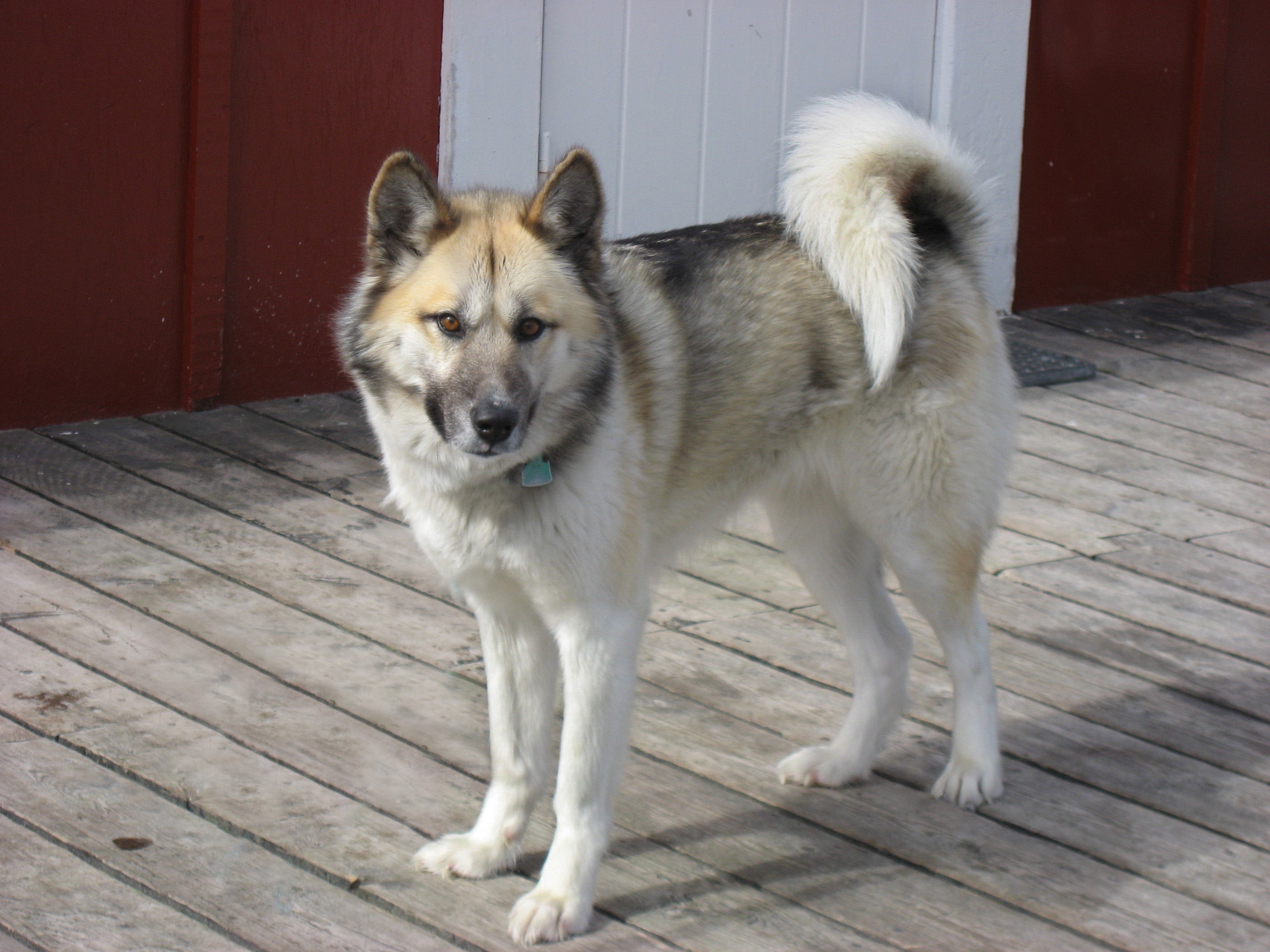 Quick cloning edit of Image:Greenland dog upernavik 2007-06-02.jpg.